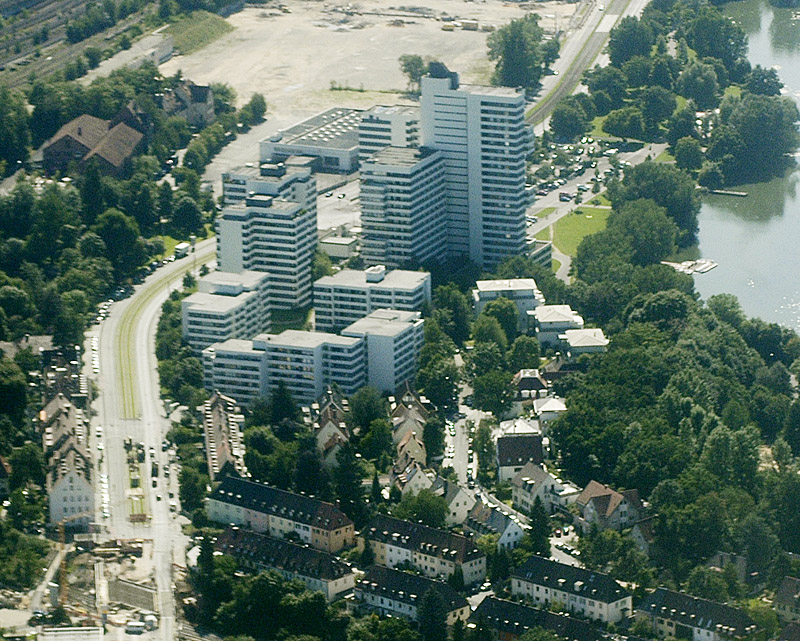 Aerial photo of Norikus Building in Nuremberg, Germany